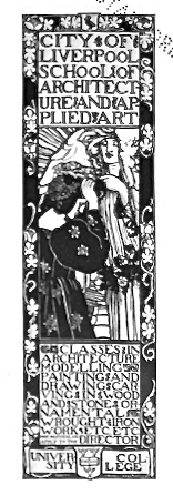 City of Liverpool School of Architecture and Applied Art - University College. 'accessed 14 Sep 2013 School of Architecture and Applied Art (Art Sheds), Liverpool', Mapping the Practice and Profession of Sculpture in Britain and Ireland 1851-1951, University of Glasgow History of Art and HATII, online database 2011